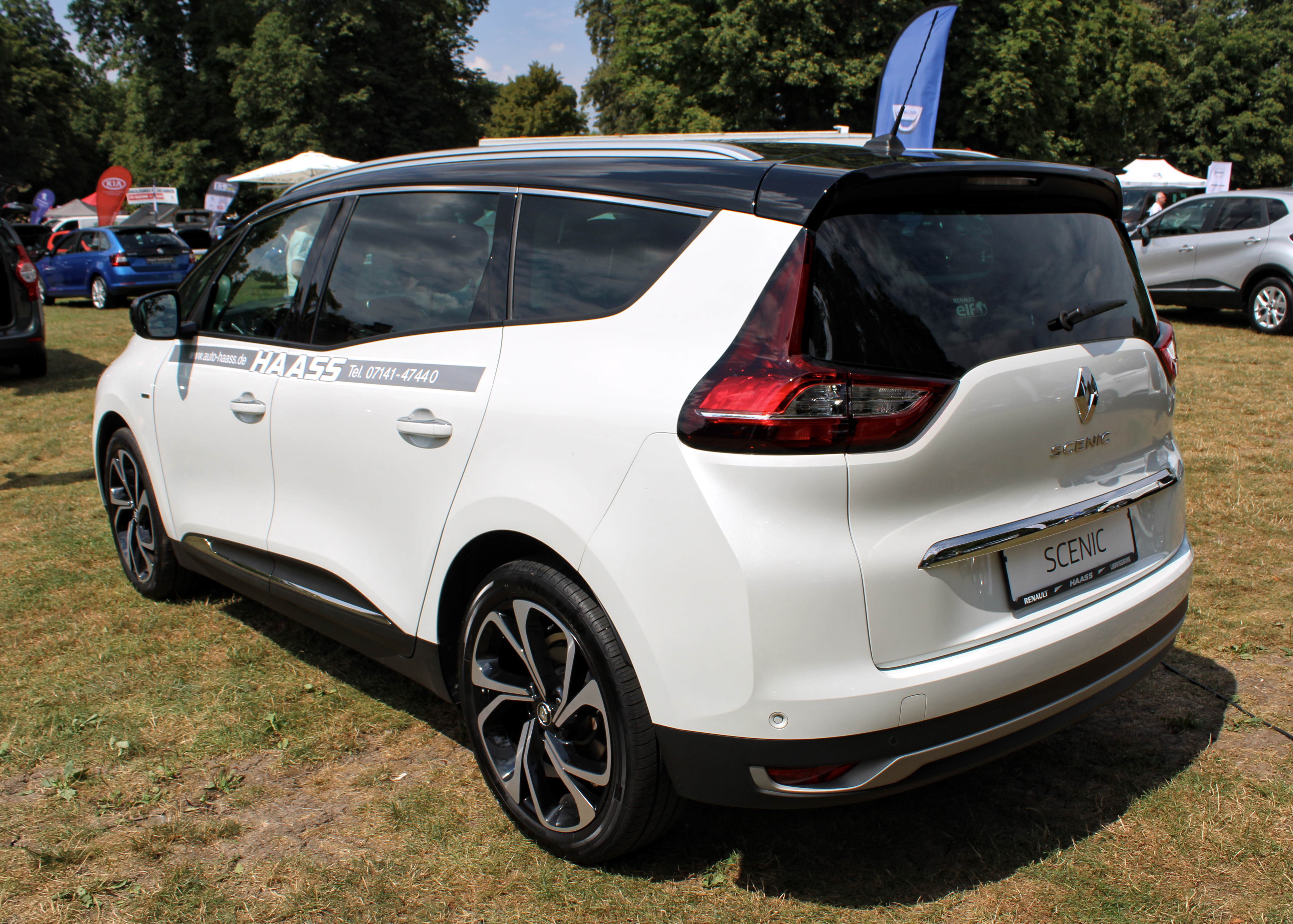 Renault Grand Scenic at schloss Monrepos